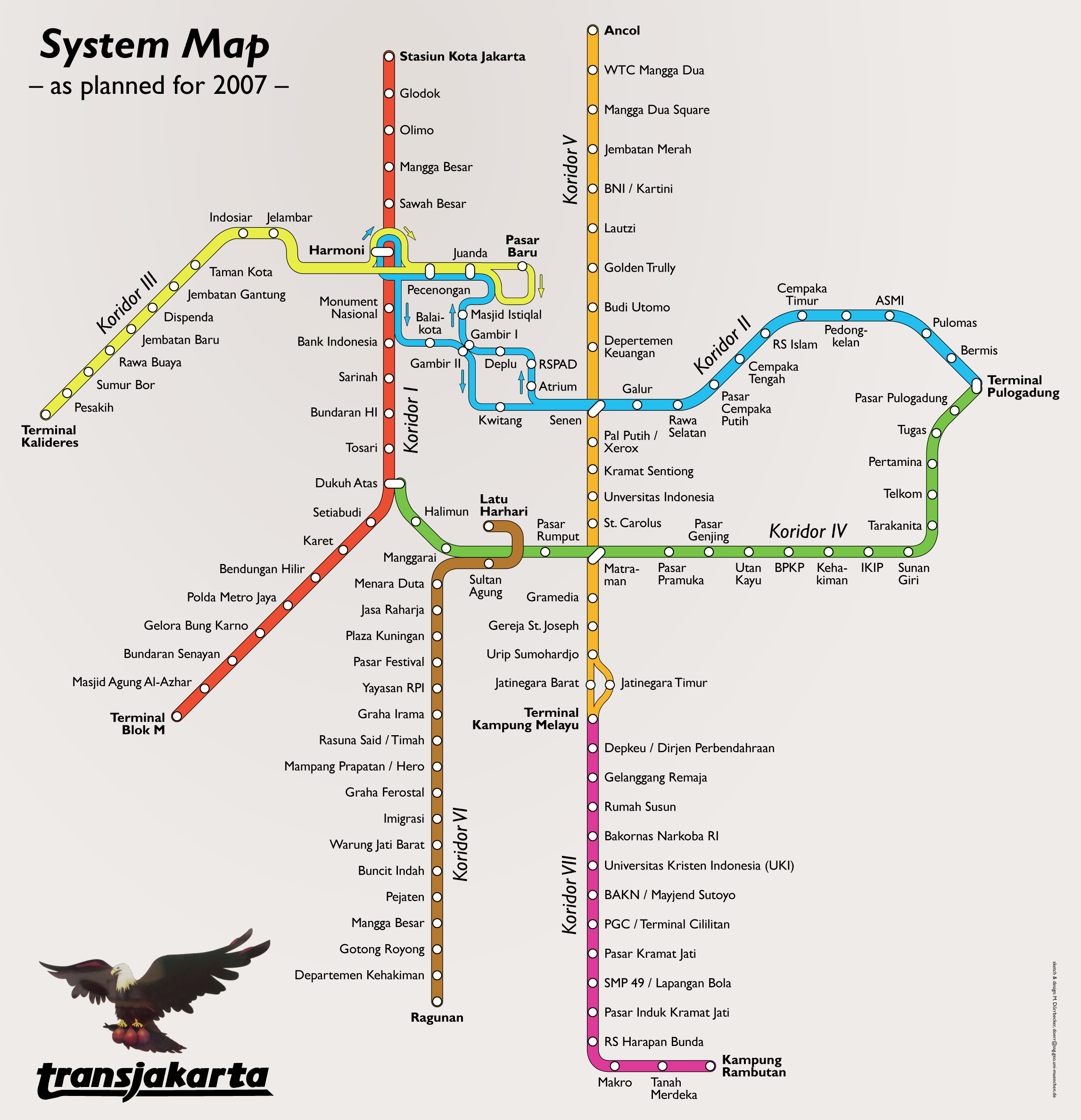 TransJakarta network as planned for 2007 (planning base 2006)